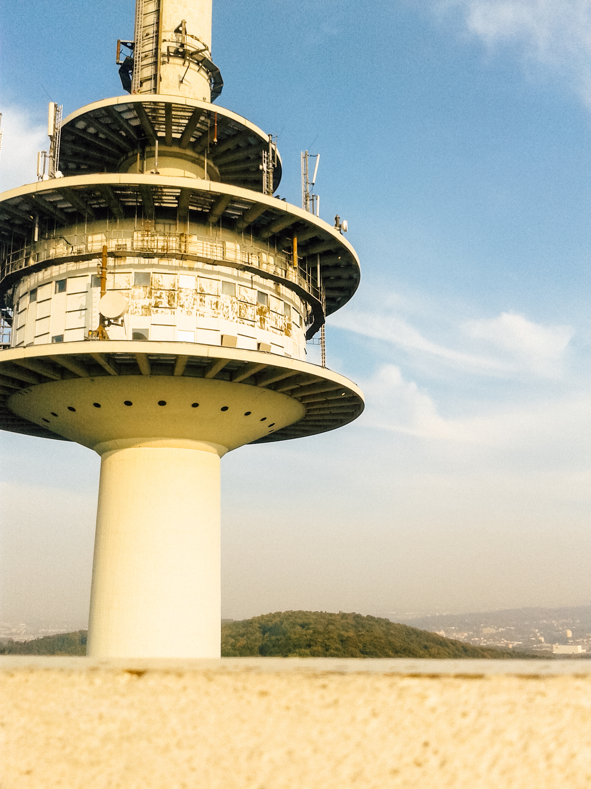 Hünenburg Telecommunication Tower